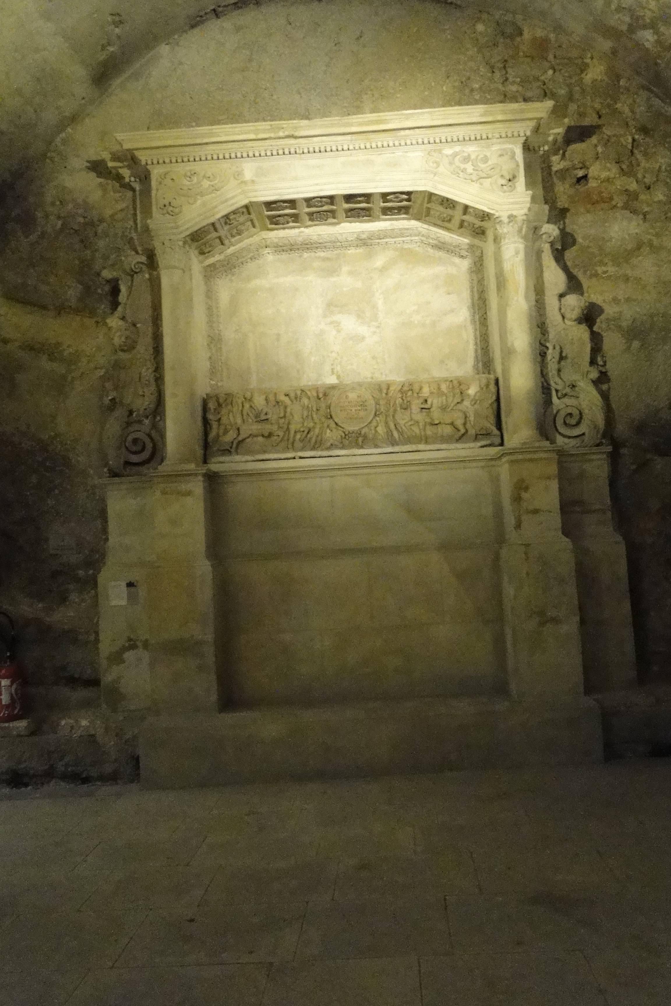 Altar in Saint-Mauronto chapel in the church of Saint-Victor (Marseille)